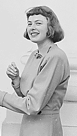 Ingrid Bergman at the White House, 1946.